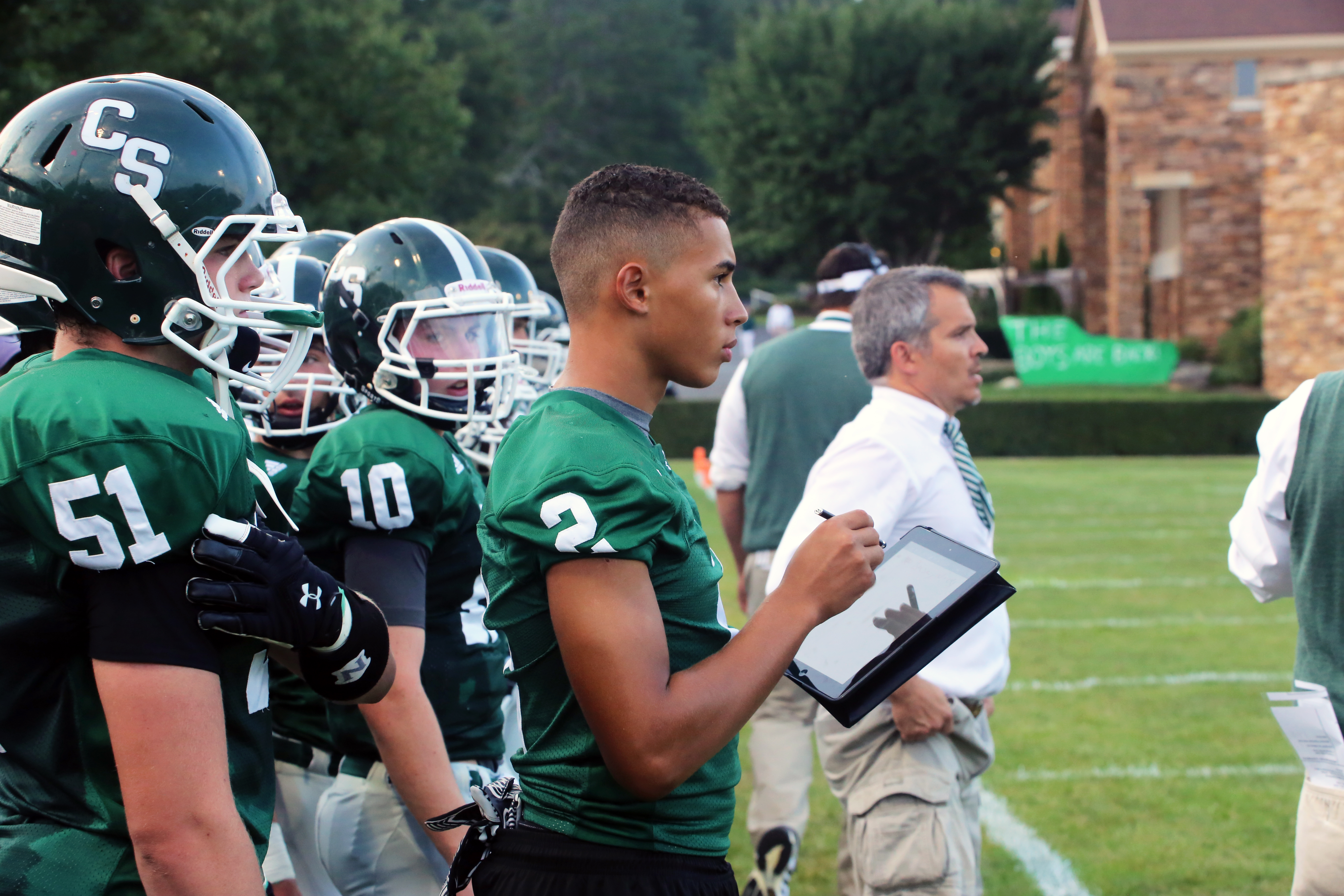 Christ School varsity football team